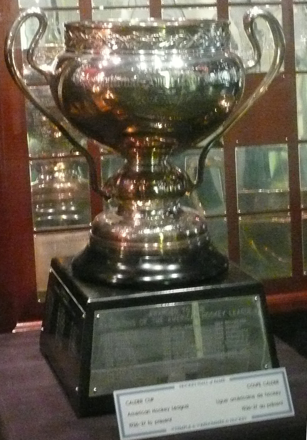 The Calder Cup on display at the Hockey Hall of Fame